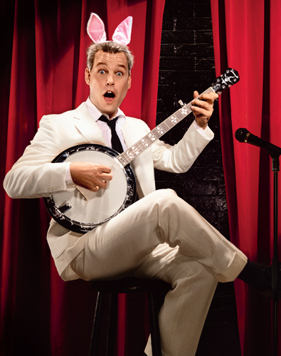 Henrik Schyffert, 2008